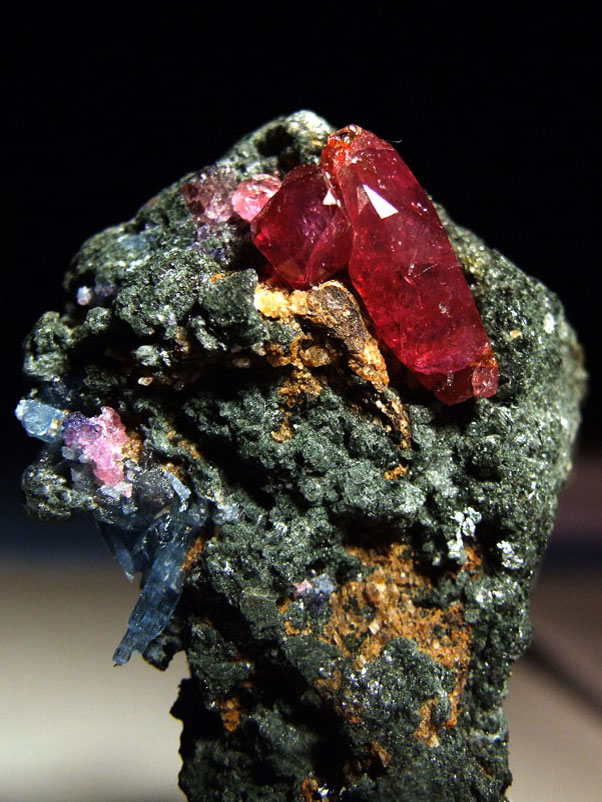 Ruby and Kyanite Locality: Winza, Mpwapwa, Mpwapwa District, Dodoma region, Tanzania Exquisite, lustrous and gemmy ruby crystals in matrix, measuring up to 2 cm, together with small, blue crystals of kyanite.